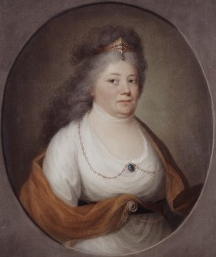 Margravine Friederike of Brandenburg-Schwedt (1736-1798), Duchess of Württemberg